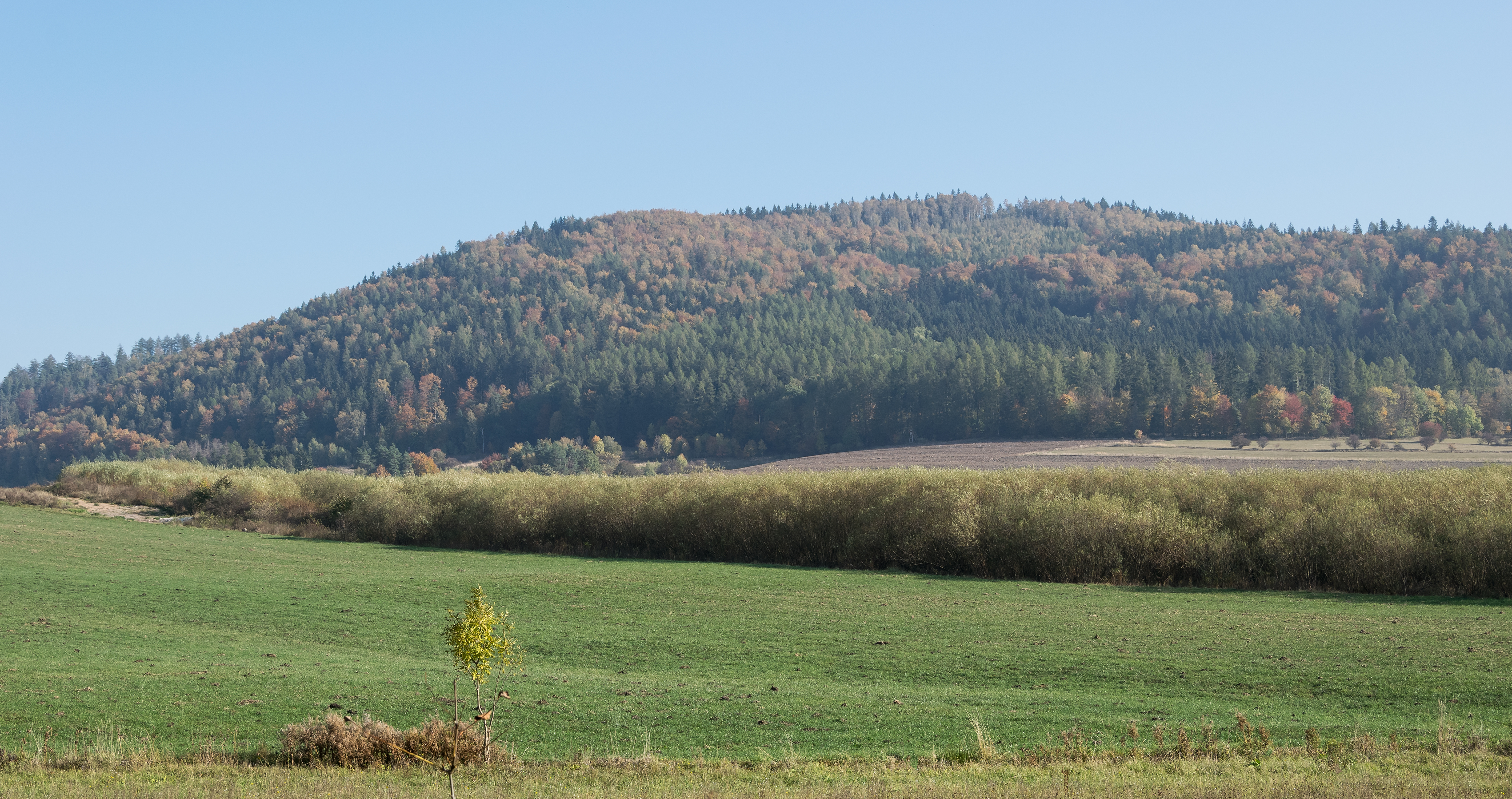 Garbiec i Golec, Góry Sowie, Sudetes